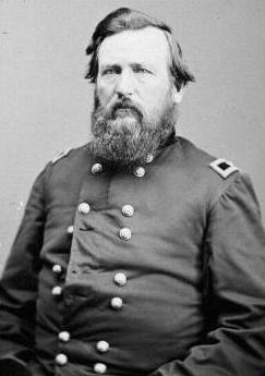 photo of Charles Robert Woods (1827-1885)